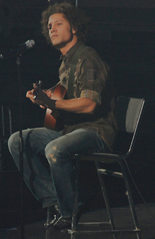 Justin Guarini performing his own song "Missing You" on guitar at the end of the Peoria Rivermen hockey season finale game